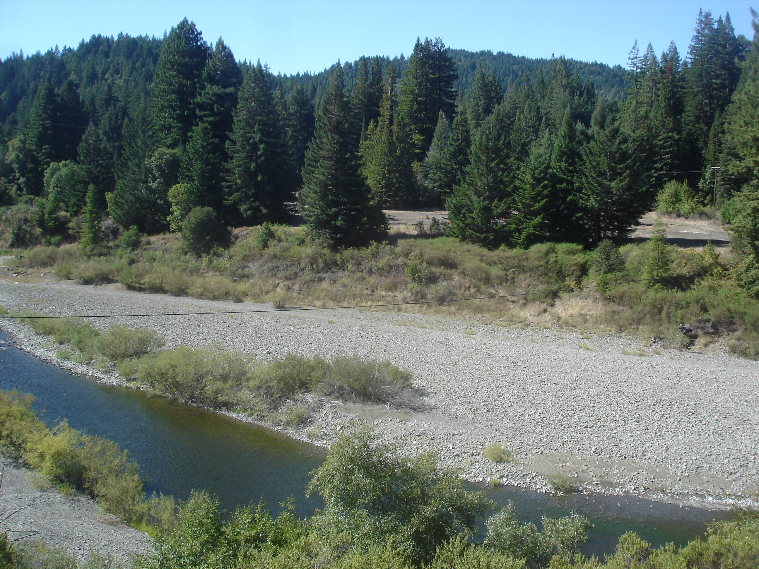 Site of Andersonia, California, at the confluence of Indian Creek and the South Fork Eel River